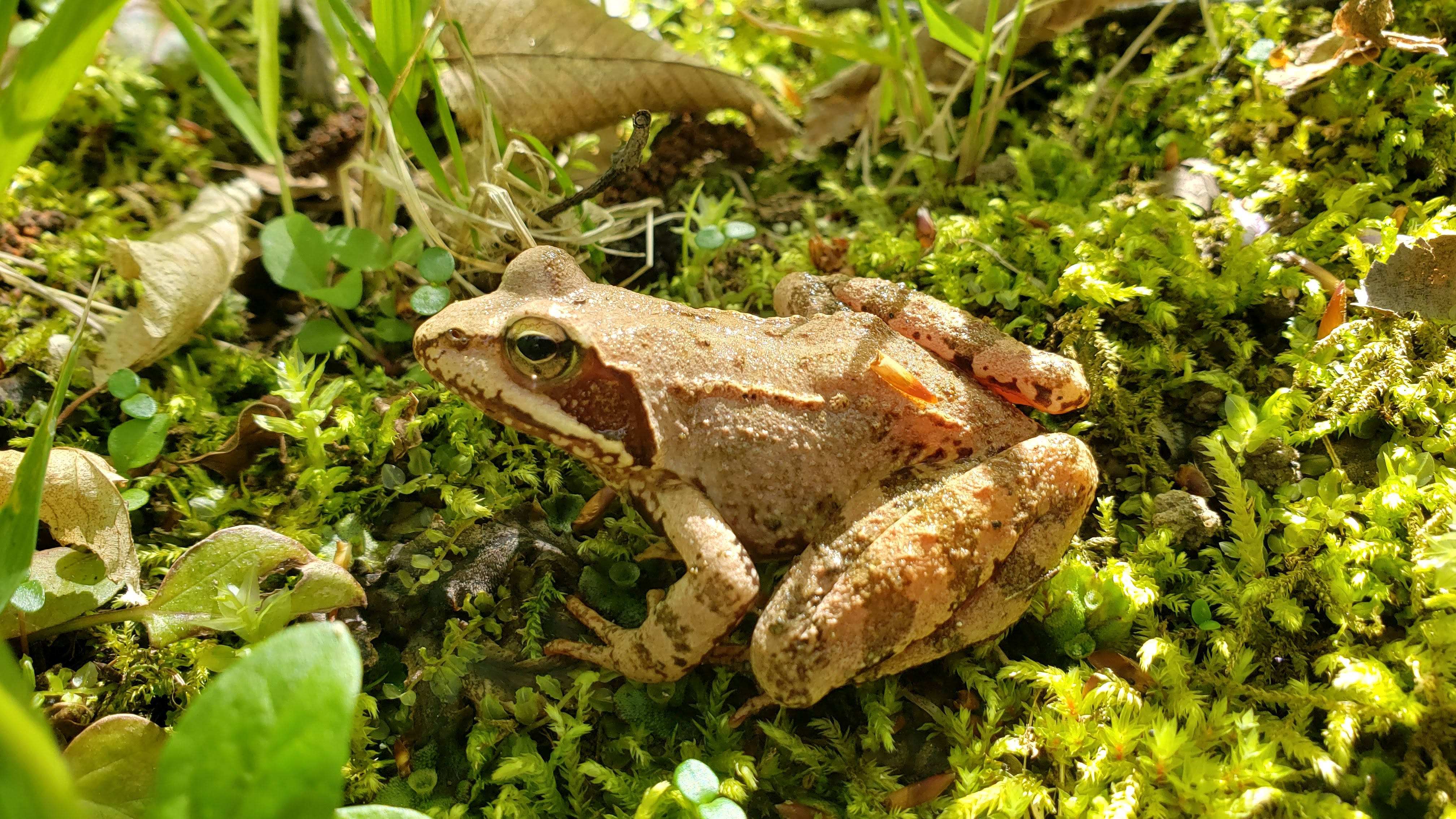 This photo shows one of the prevailent frog species that are found in Bulgaria. The wood frog (Lithobates sylvaticus) can be found near rivers or ponds.